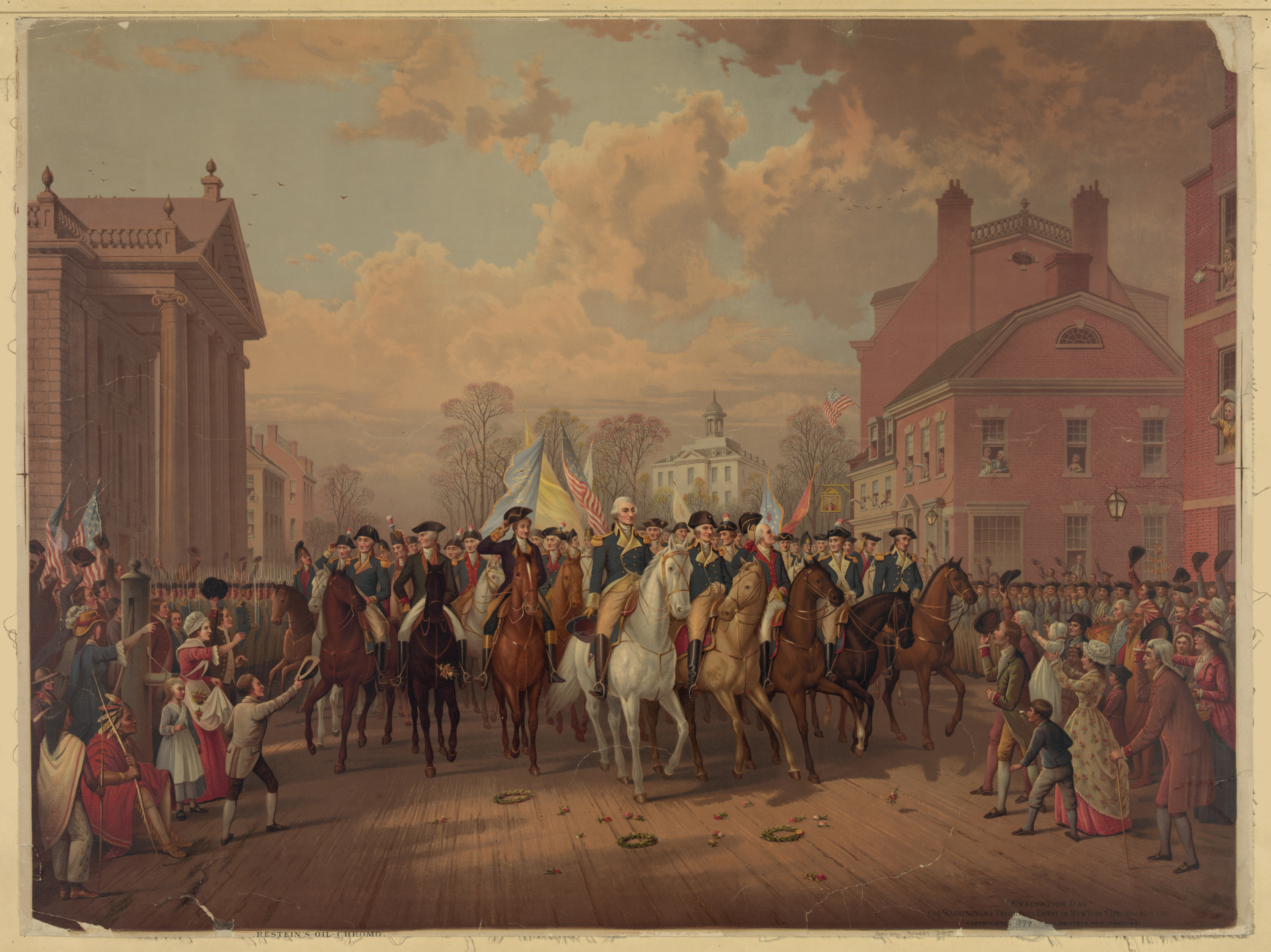 Title: "Evacuation day" and Washington's triumphal entry in New York City, Nov. 25th, 1783 Abstract: Print showing George Washington and other military officers riding on horseback along street, spectators line the street, others observe from windows. Physical description: 1 print : chromolithograph. Notes: Restein's oil-chromo.; Copyrighted [... E.P.] & L. Restein.; Title from item.